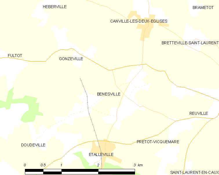 Map of French municipality Bénesville